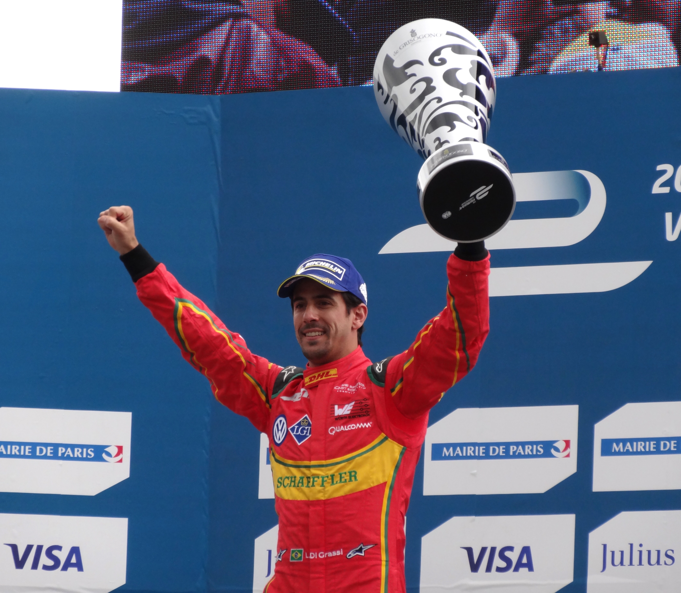 Lucas di Grassi Paris EGP 2016 winner